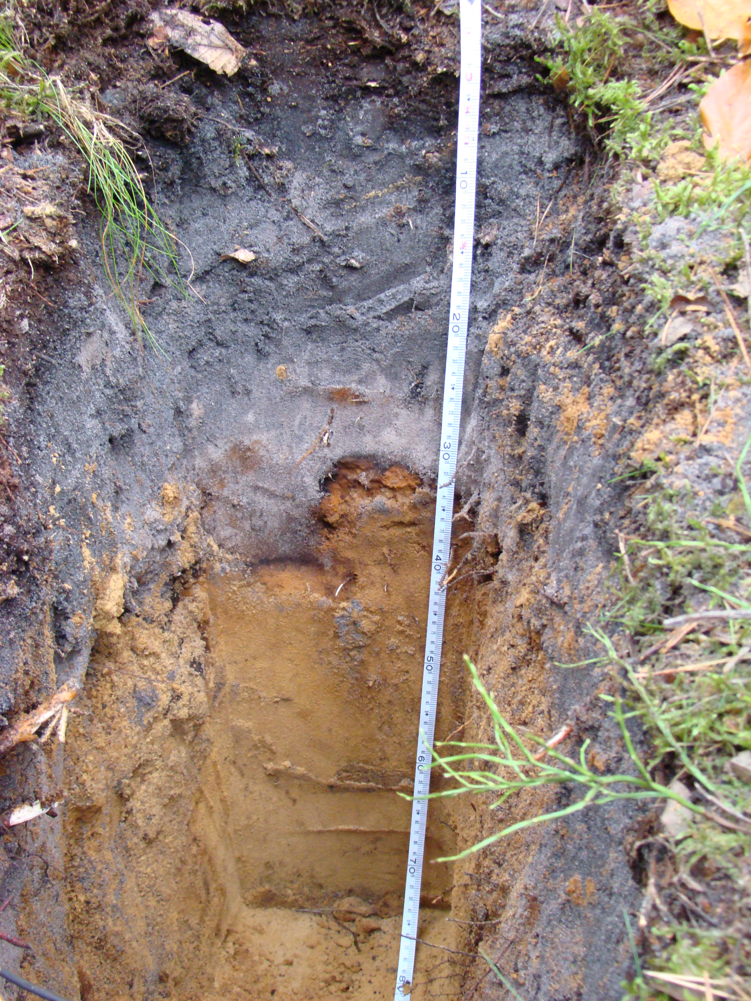 Podzol (Spodosol), sand, pine forest near Olkusz, south Poland